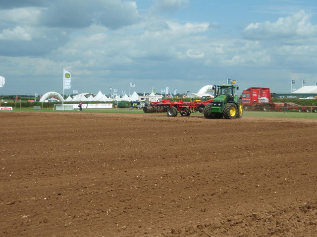 Cereals 2008 ,Green Machine Working demonstrations on light soil don't prove anything. This is different due to the fact the tractor driver has his hands resting behind his head and the tractor is moving forward, self steering by a GPS unit and the cultivator is automatically engaging the working position by an electronic headland management system within the tractor.